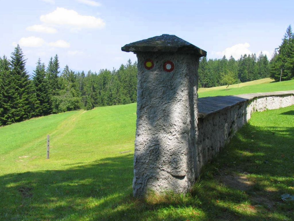 Trail blaze on Čreta.